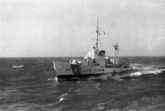 The U.S. Coast Guard high endurance cutter USCGC Duane (WHEC-33) approaching the U.S. Navy fleet oiler USS Chemung (AO-30), not visible, off Vietnam. On 4 December 1967 Duane was assigned to Coast Guard Squadron Three off the coast of Vietnam, where she served as the flagship of the squadron. She permanently departed Vietnamese waters on 28 July 1968.